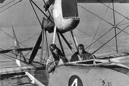 Ad Astra Aero S.A. : Maurice Duval and Emile Taddéoli in a flying boat Savoia S-13 (CH-4) on Lac Léman.